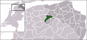 Locator map of Dutch municipalities in Groningen (LocatieGrootegast.png)